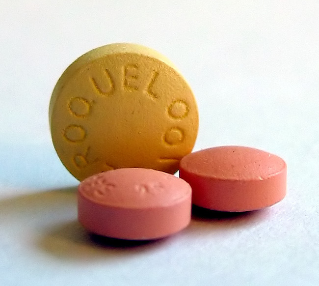 Seroquel-tablets, 100 and 25 mg